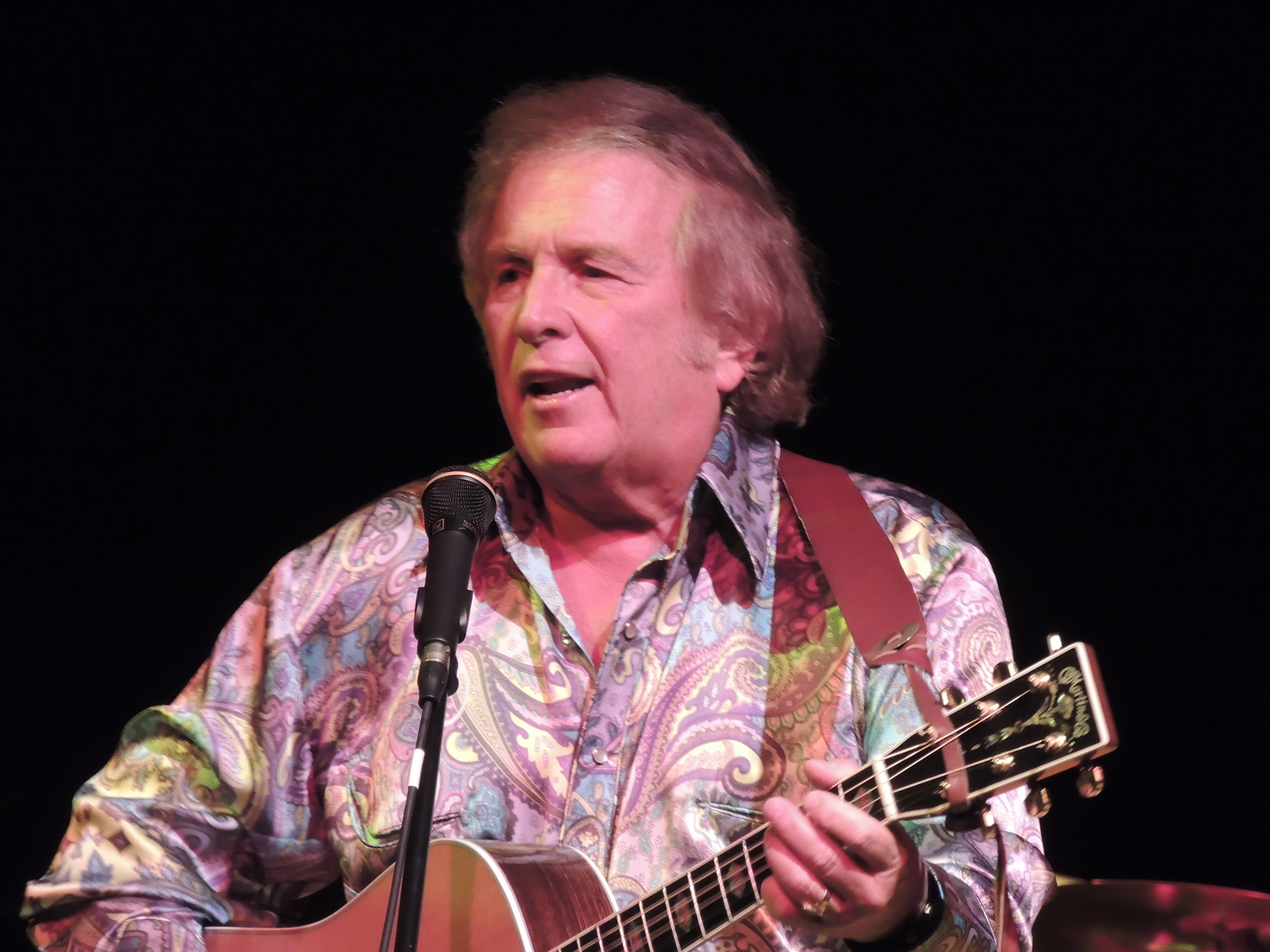 Don McLean at the NYCB Theatre at Westbury in July 2013.